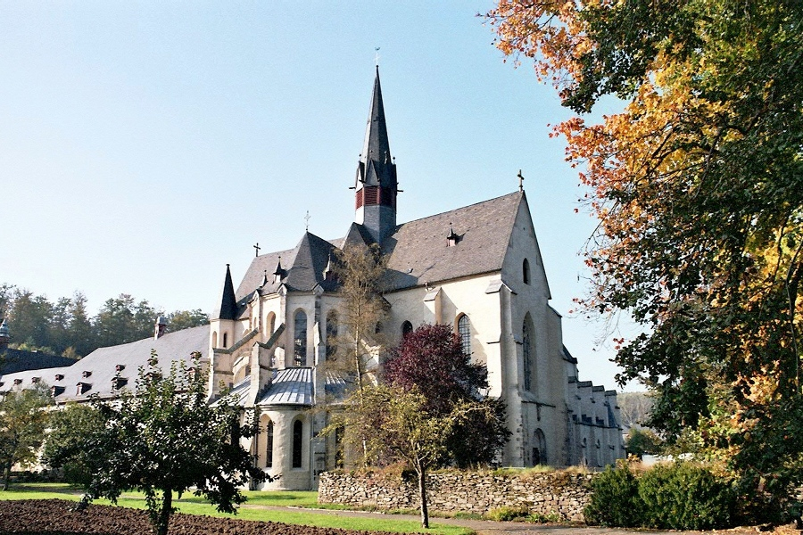 Image: Church of the Cistercian abbey of Marienstatt from north-east Author: Image by Benutzer:Schnatz (October 2005)